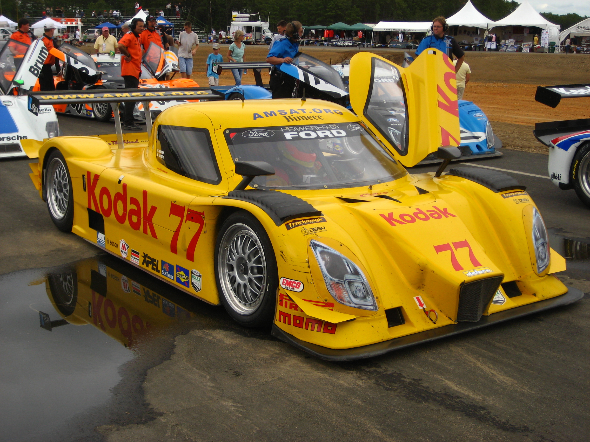 Doran Racing's Dallara-Ford at the 2008 Supercar Life 250 at New Jersey Motorsports Park.